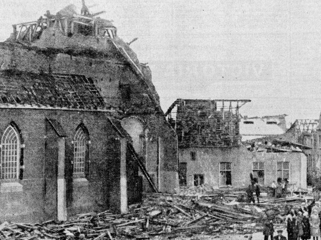 Tornado of 1925 in the Netherlands